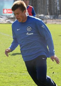 Maksim Kanunnikov during training session